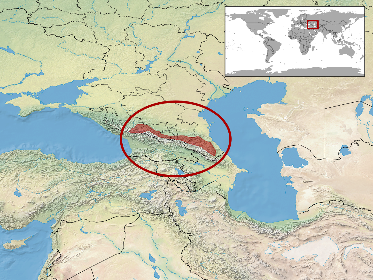 geographic distribution of Vipera lotievi (Native: Georgia; Russian Federation)